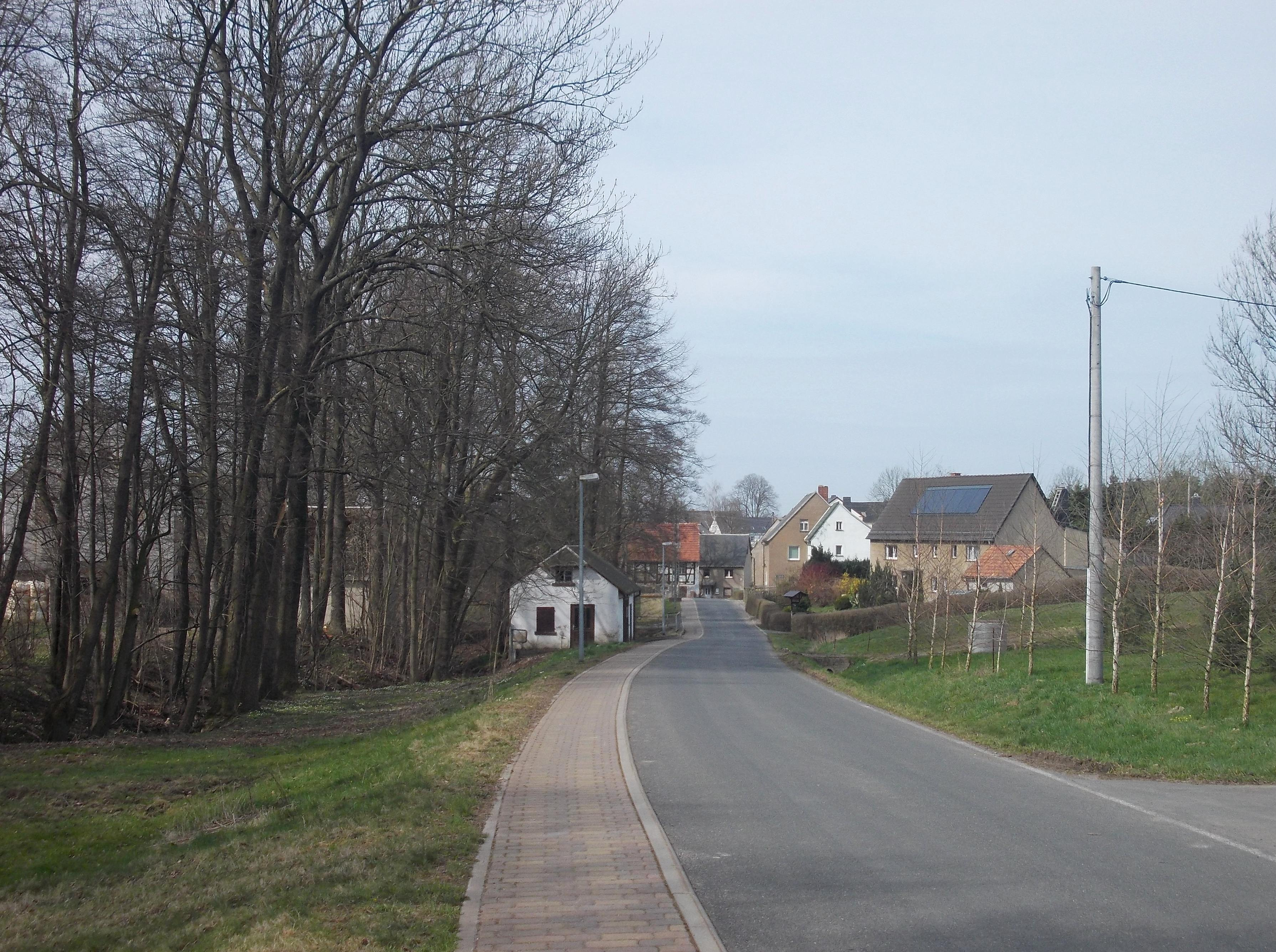 The main street of Schmalbach (Striegistal, Mittelsachsen district, Saxony)